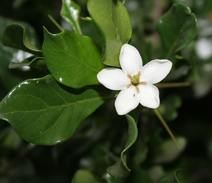 Mountain Pomegranate, Spiny Randia or Mainphal Randia dumetorum syn. Catunaregam spinosa in Hyderabad , India.